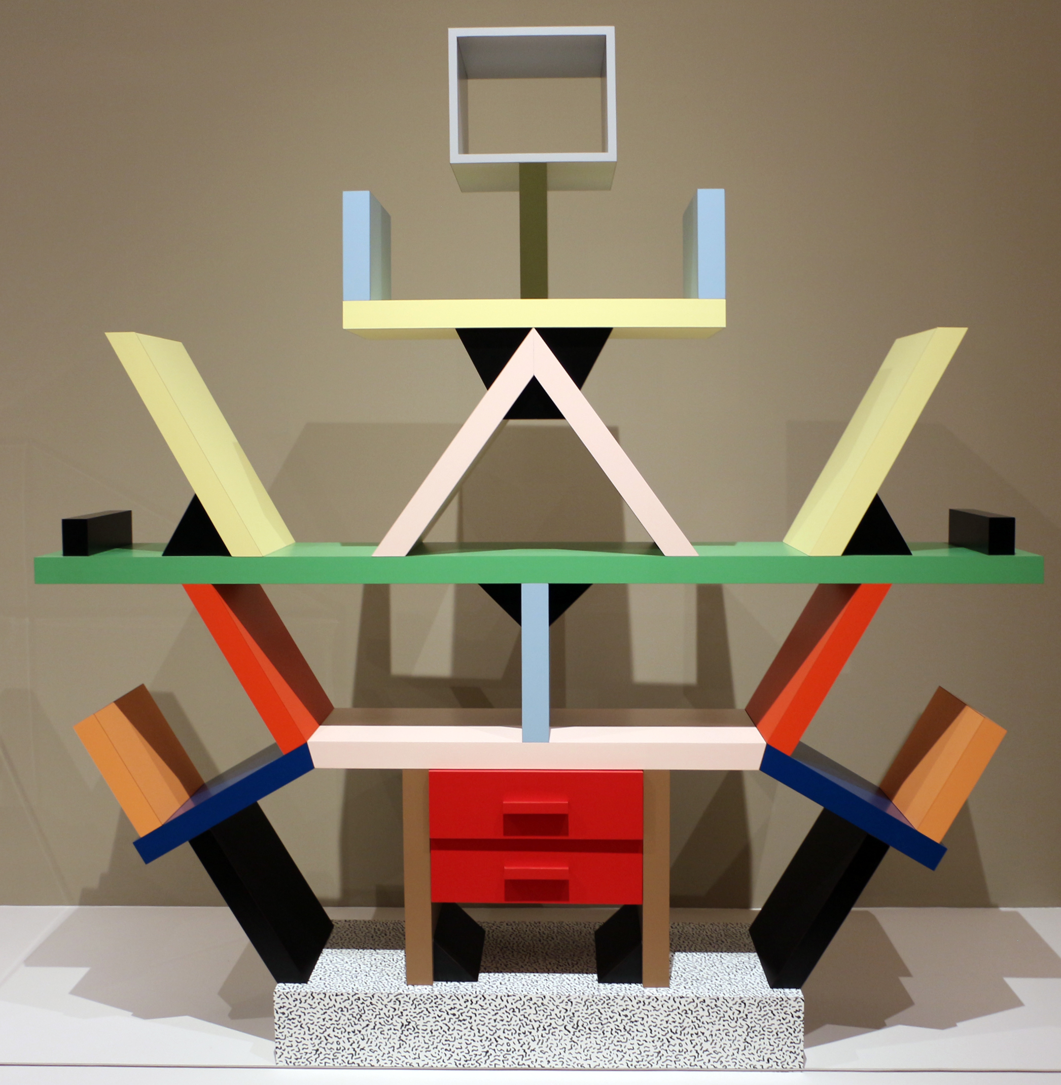 Furniture in the Milwaukee Art Museum